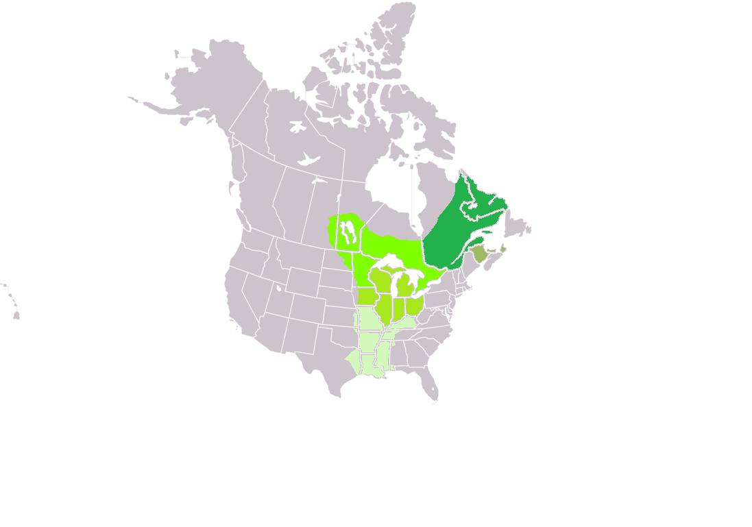 New France around 1750. Areas in olive are the Province of Acadia Areas in dark green, Canada Areas in luminous green, the Upper Country Division of Louisiana. The regions in pastel green represent Lower Louisiana Those in light green, Upper Louisiana.